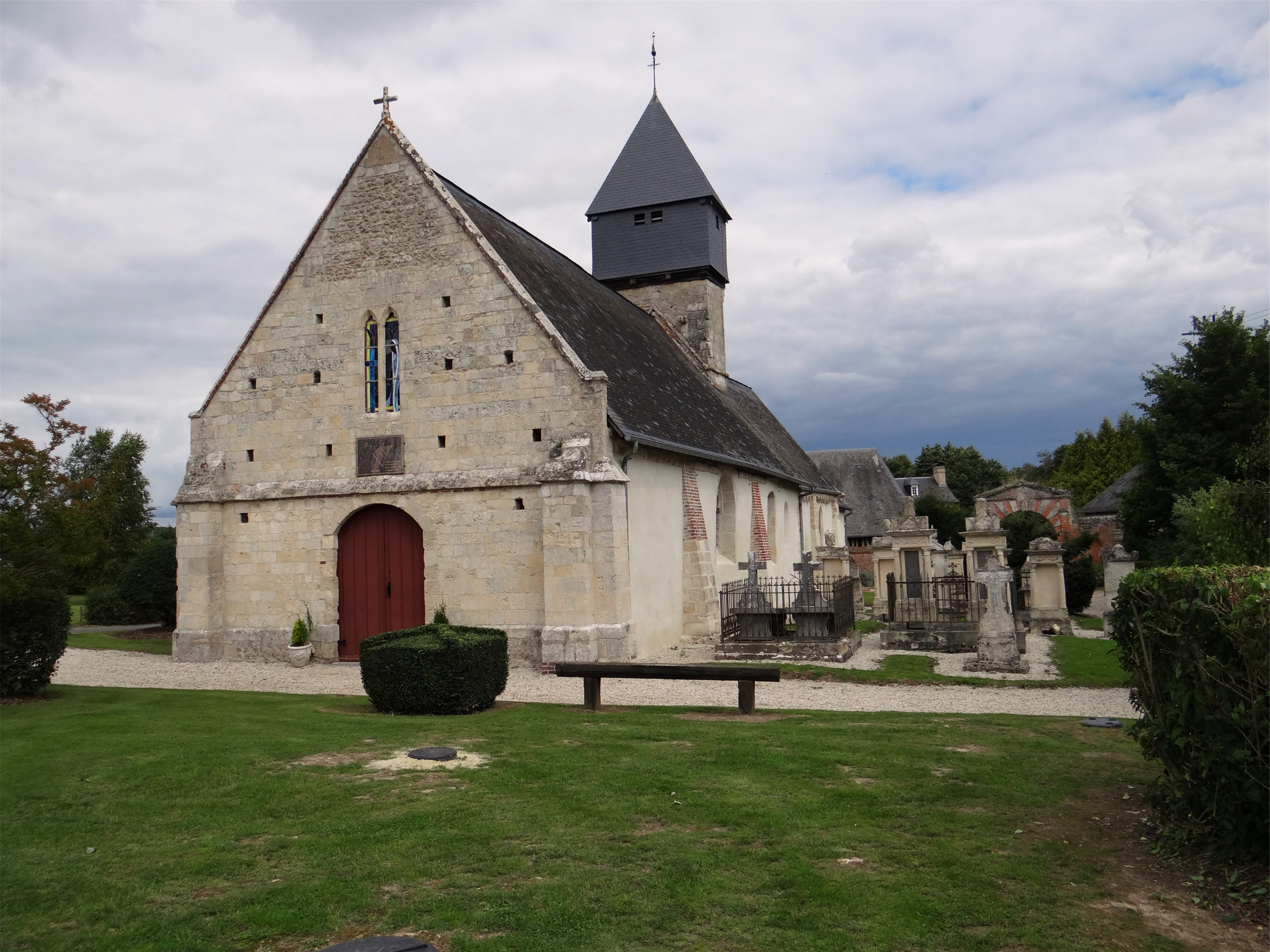 Parish Church, Vauville, Calvados, France.